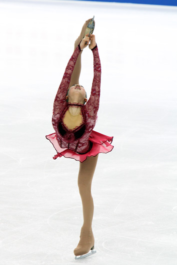 Mao Asada performs a Biellmann spin during her short program at the 2010 World Championships.